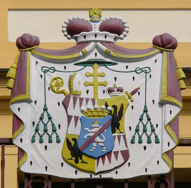 Coat of arms of arcbishop Maxmilián Josef Sommerau-Beckh in Olomouc (Czech Republic).